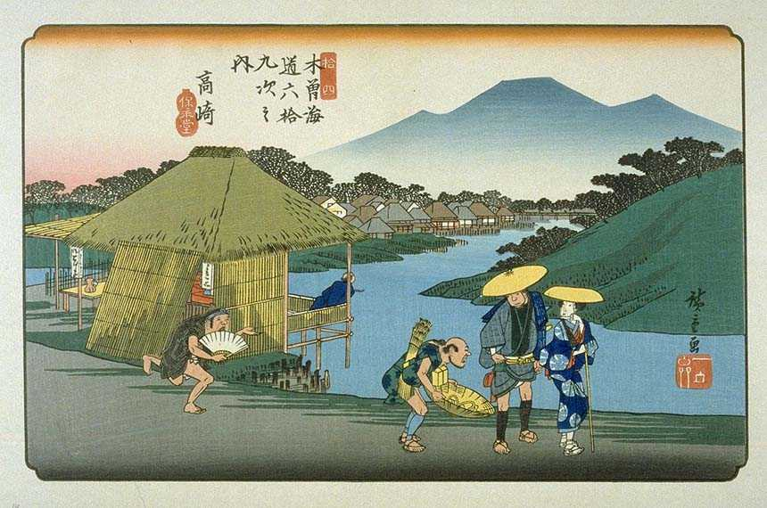 Takasaki on the Kisokaido, ukiyo-e prints by Hiroshige